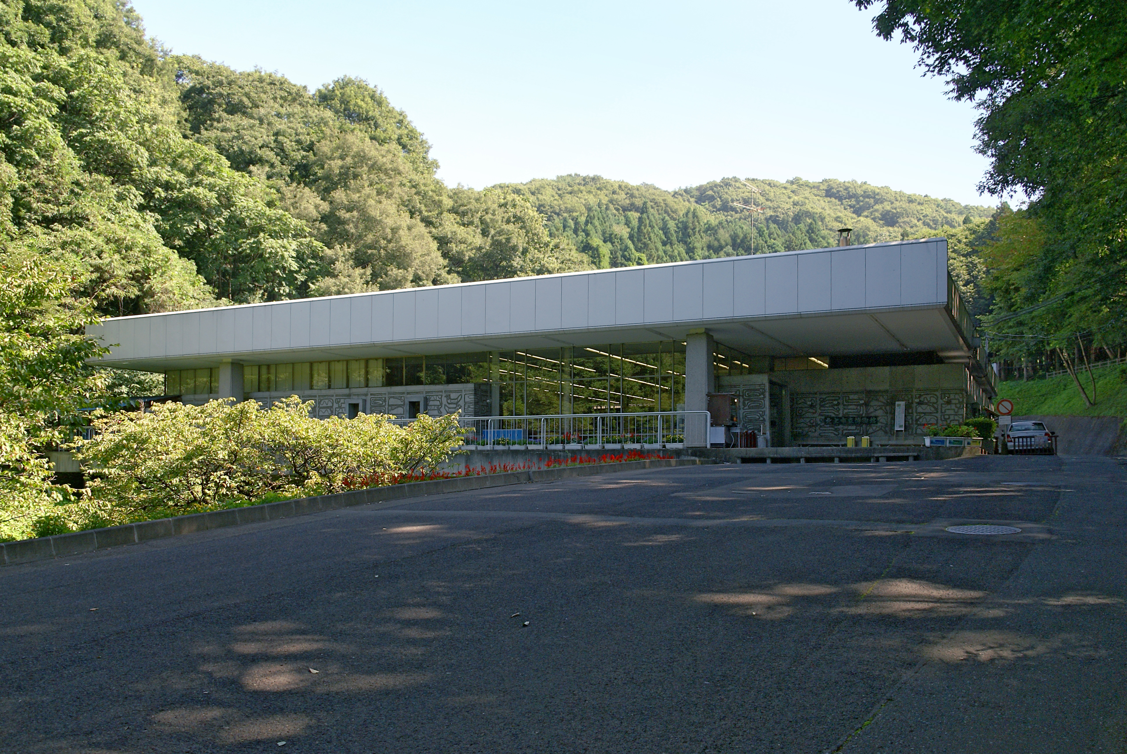 Kitakami City Museum of Michinoku Folk Village in Kitakami, Iwate prefecture, Japan